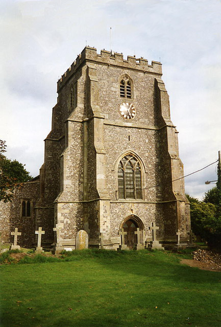 Church of the Holy Cross, Ramsbury, UK. "A rather solid, squat tower built with flint; inside the church are the remains of a Saxon cross. There was a bishopric here in the 10th century which was merged with the see of Sherborne in 1058, so the site the church stands on is probably an ancient and significant one"